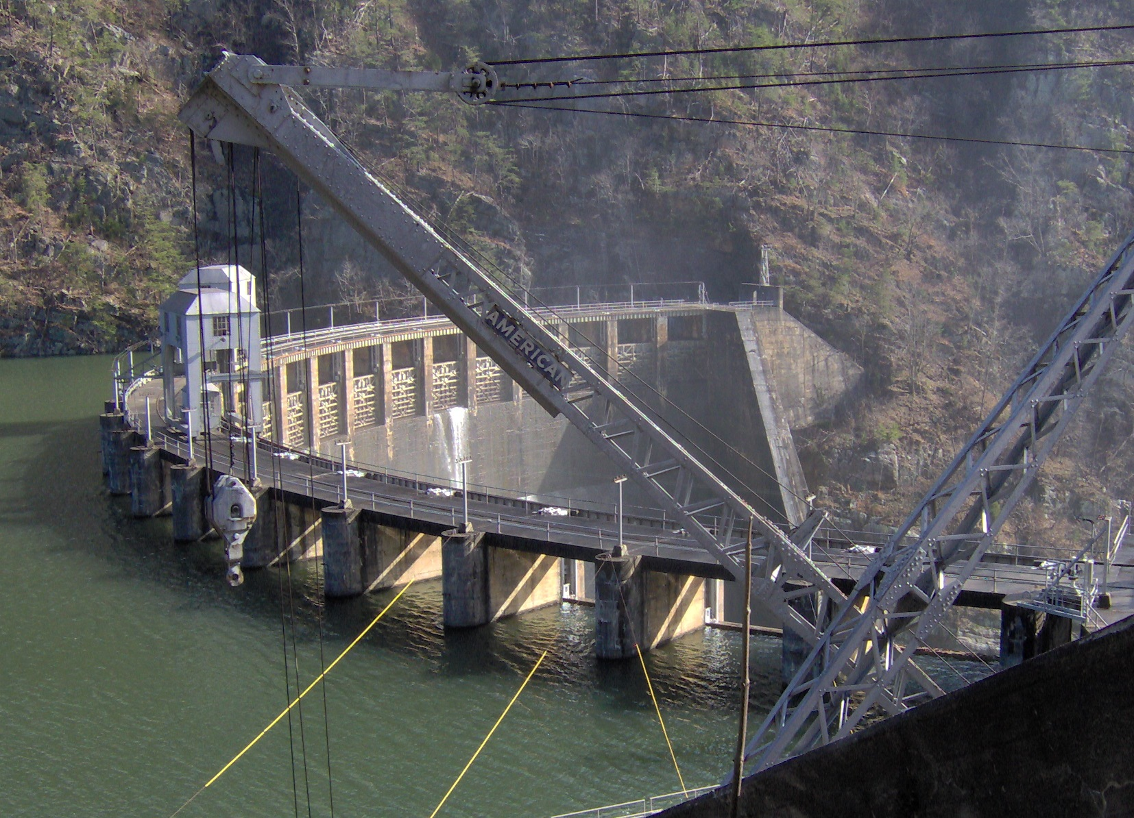 Calderwood Dam, along the Little Tennessee River in Blount County, Tennessee, USA. The sixth gate from the far end of the dam is open, allowing the white streak of water to spill over. This image was obtained by following the gravel road from the Calderwood Overlook on US-129 to its end, and climbing the ridge slope to the end of the concrete wall blocking the way.